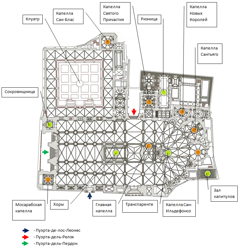 Plan of Toledo Cathedral (rus)